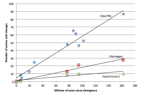 A graph of the corrected number of amino acid changes versus time since divergence.